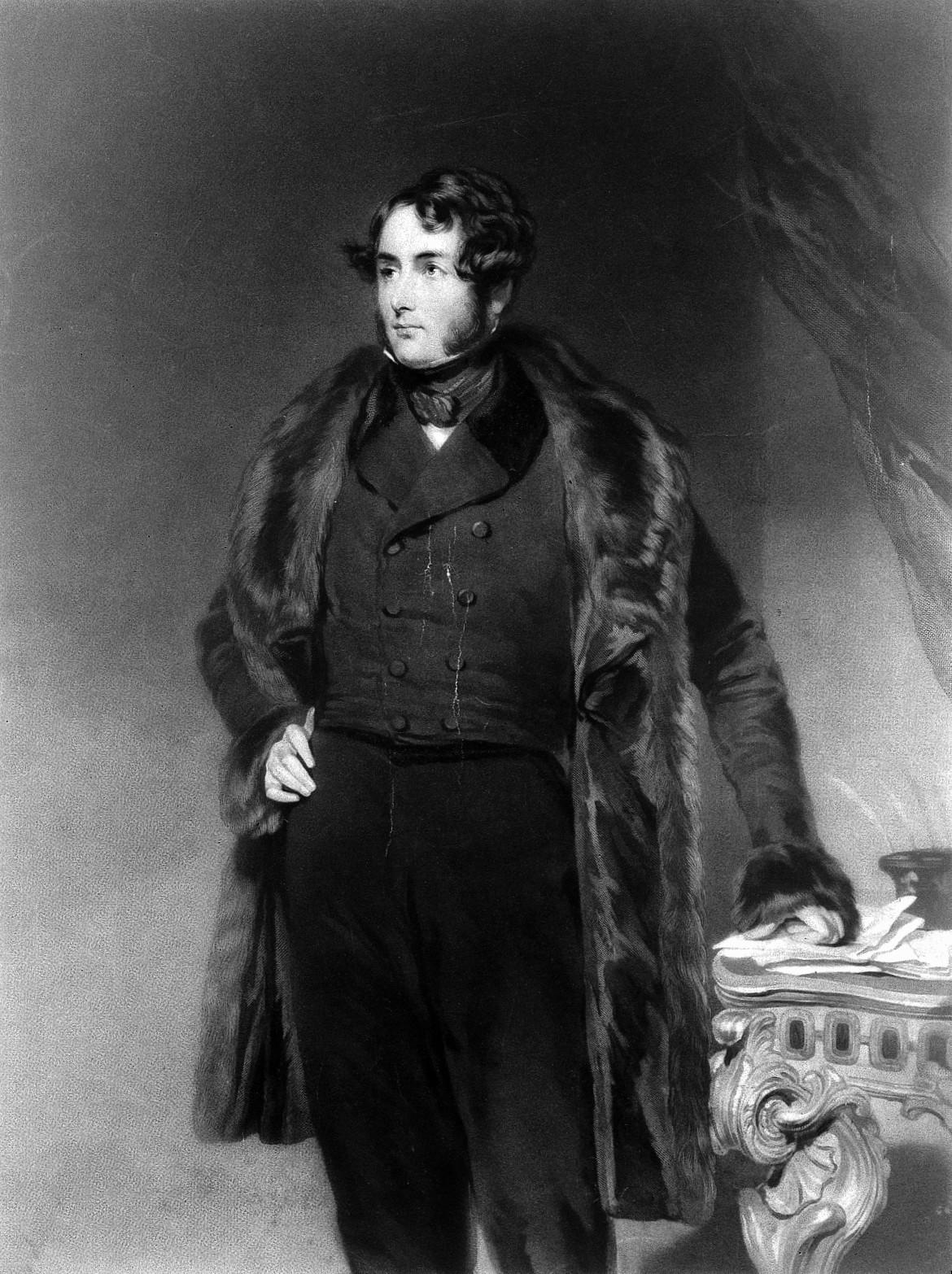 Francis Egerton (1800-1857), 1st Earl of Ellesmere. Statesman and poet. Mezzotint by Faed after ? Iconographic Collections Keywords: Poets; Francis Egerton; J. Faed